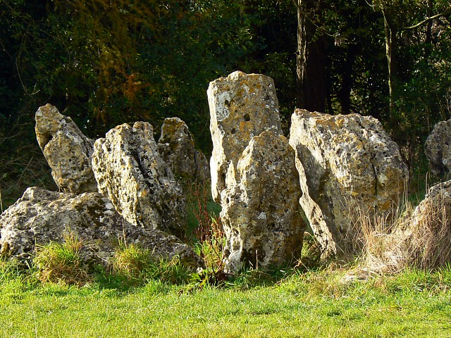 Rollright Stones (part), Oxfordshire Deeply pitted and with many lichens, the stones are probably late Neolithic. More here